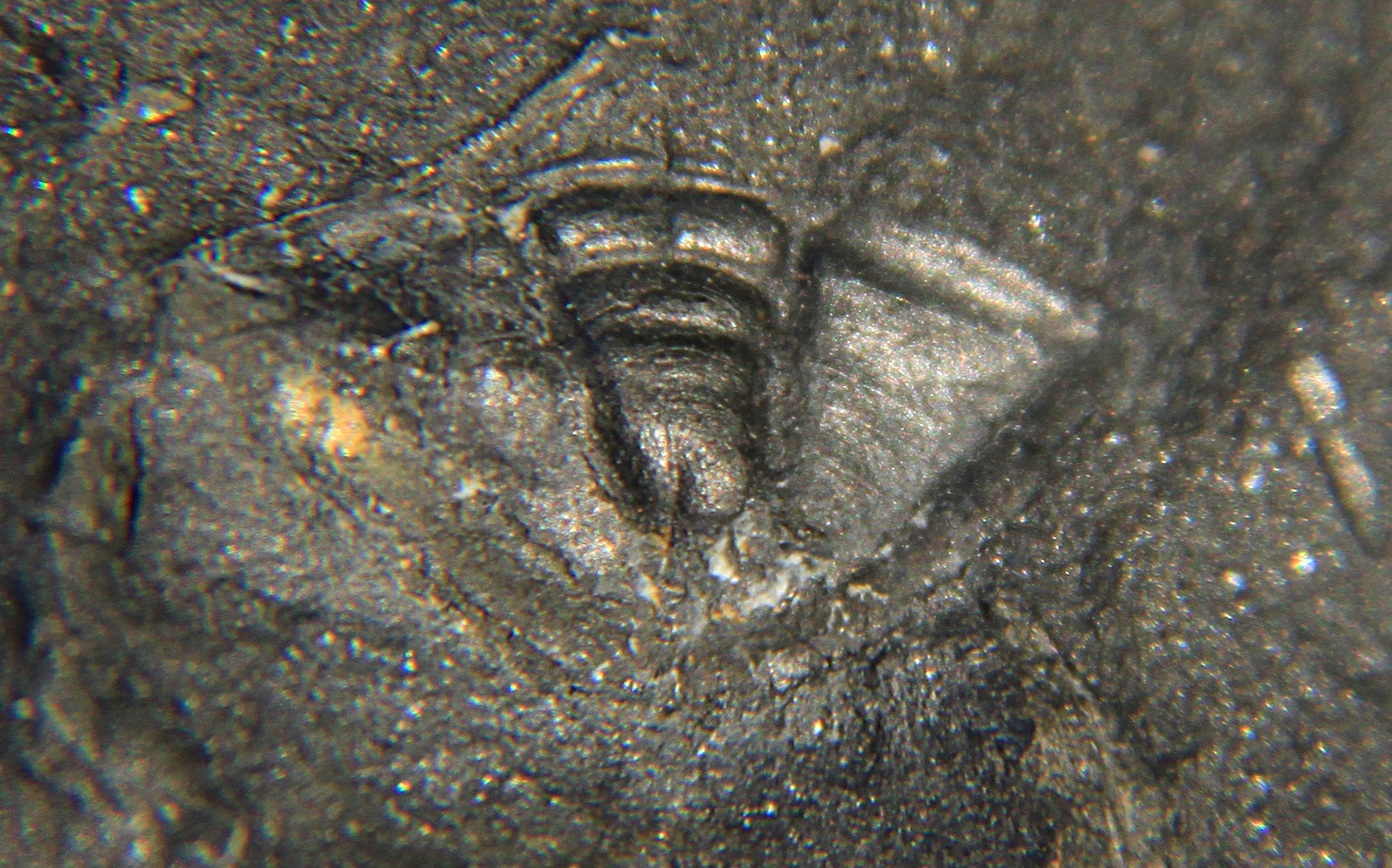 A pygidium of Pricyclopyge longicephala, Order Asaphida, Family Cyclopygidae, 5mm along the axis, dorsal view, found in the Dobrotiva Formation near Ejpovice, Czech Republic, from the Ordovician